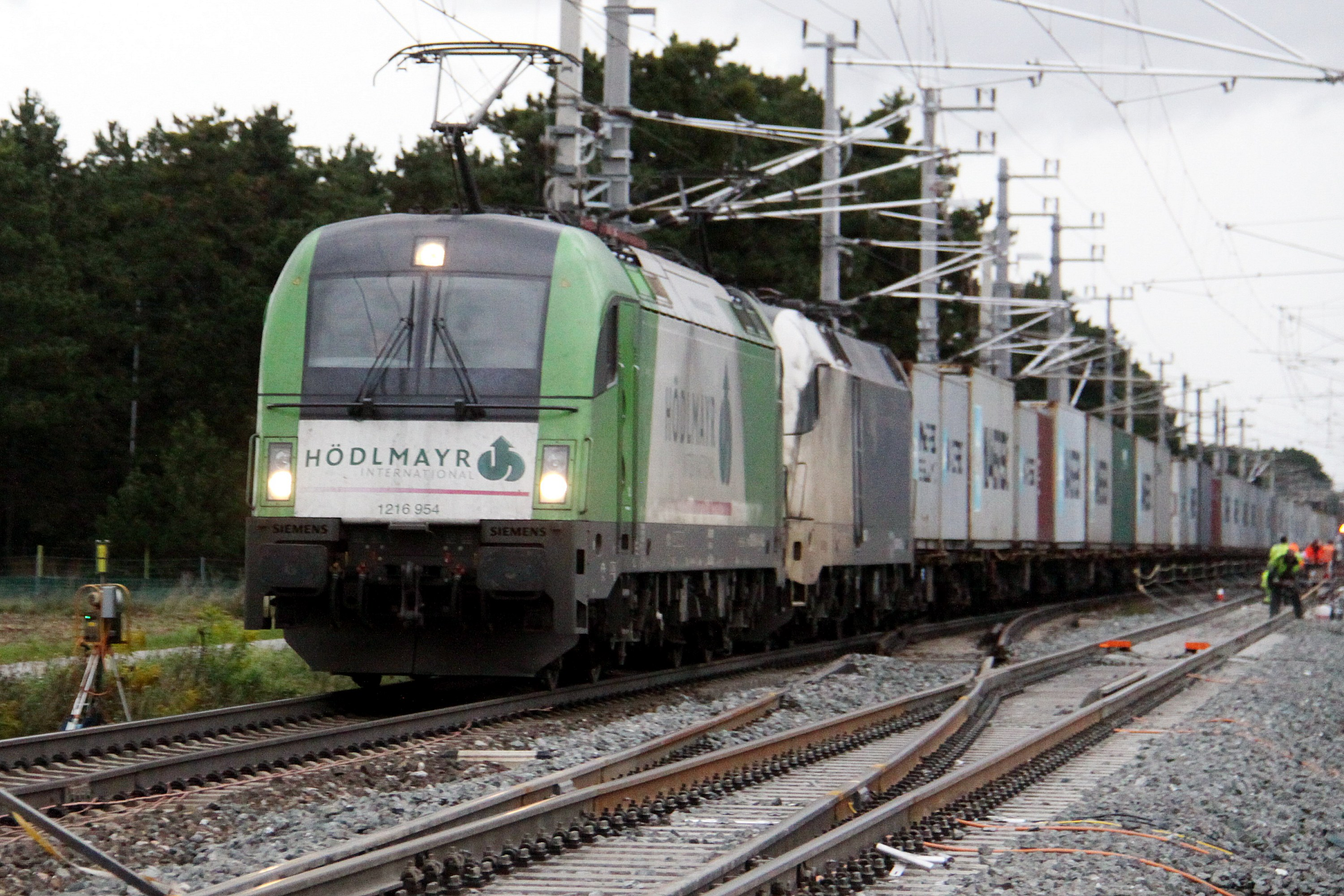 Total remodeling, renovation and modernization of Neunkirchen railwaystation.